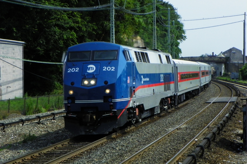 A Metro-North GE Genesis P32AC-DM at Ossining Station.